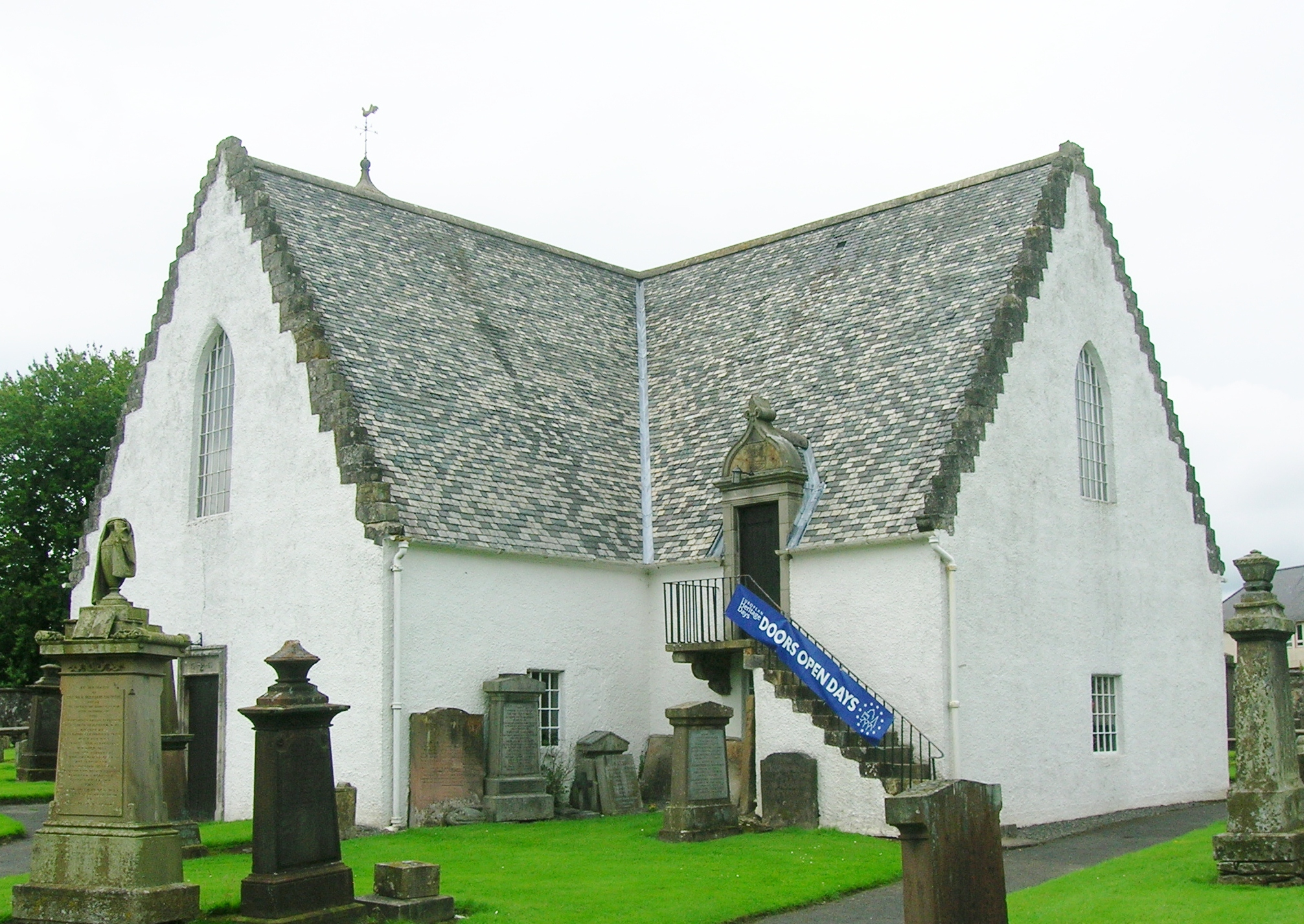 Fenwick Kirk from the east, East Ayrshire, Scotland.